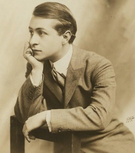 American actor Ernest Truex (1889-1973) - original image (damaged : see source) cropped & improved